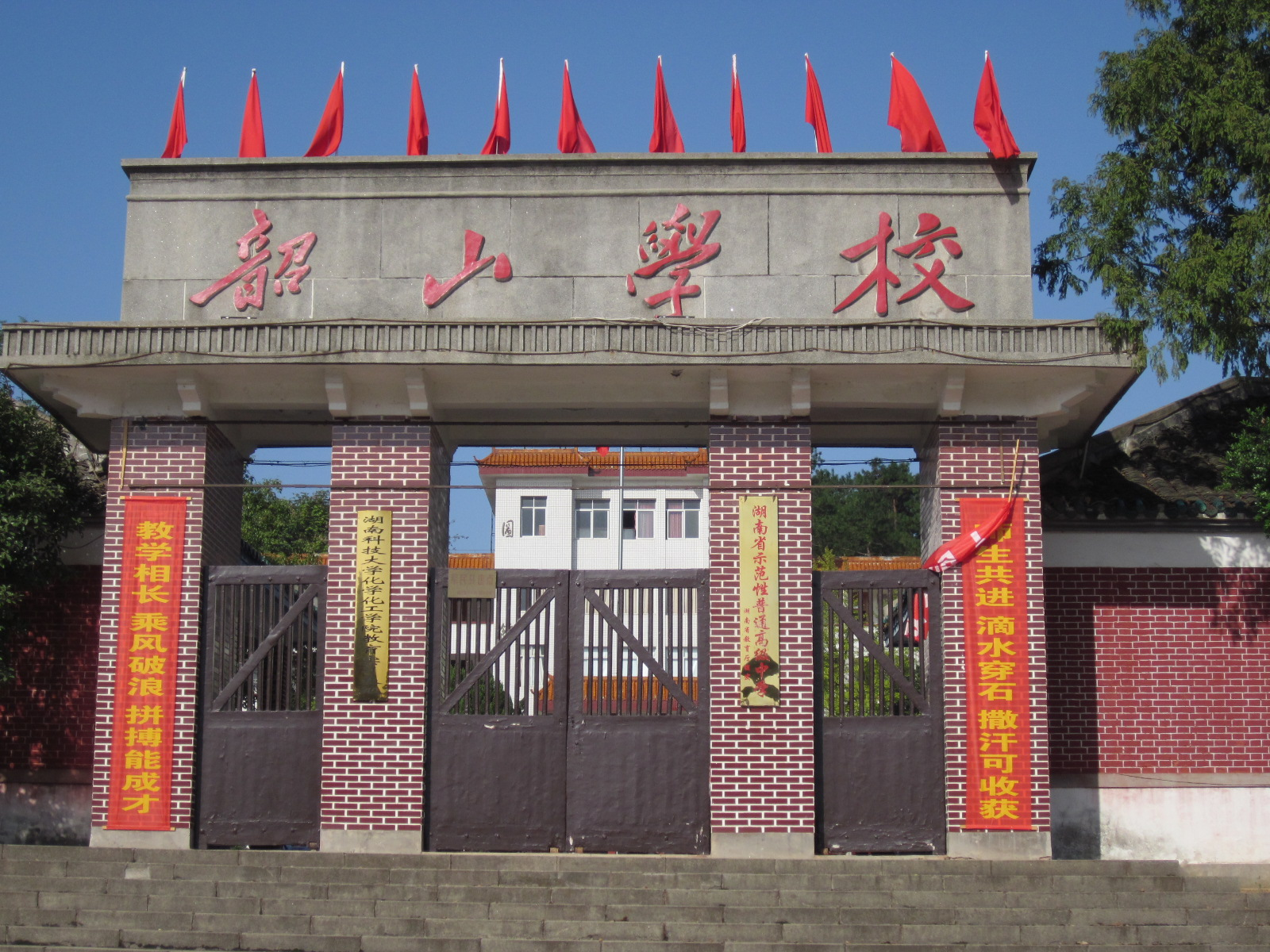 ShaoShan High School